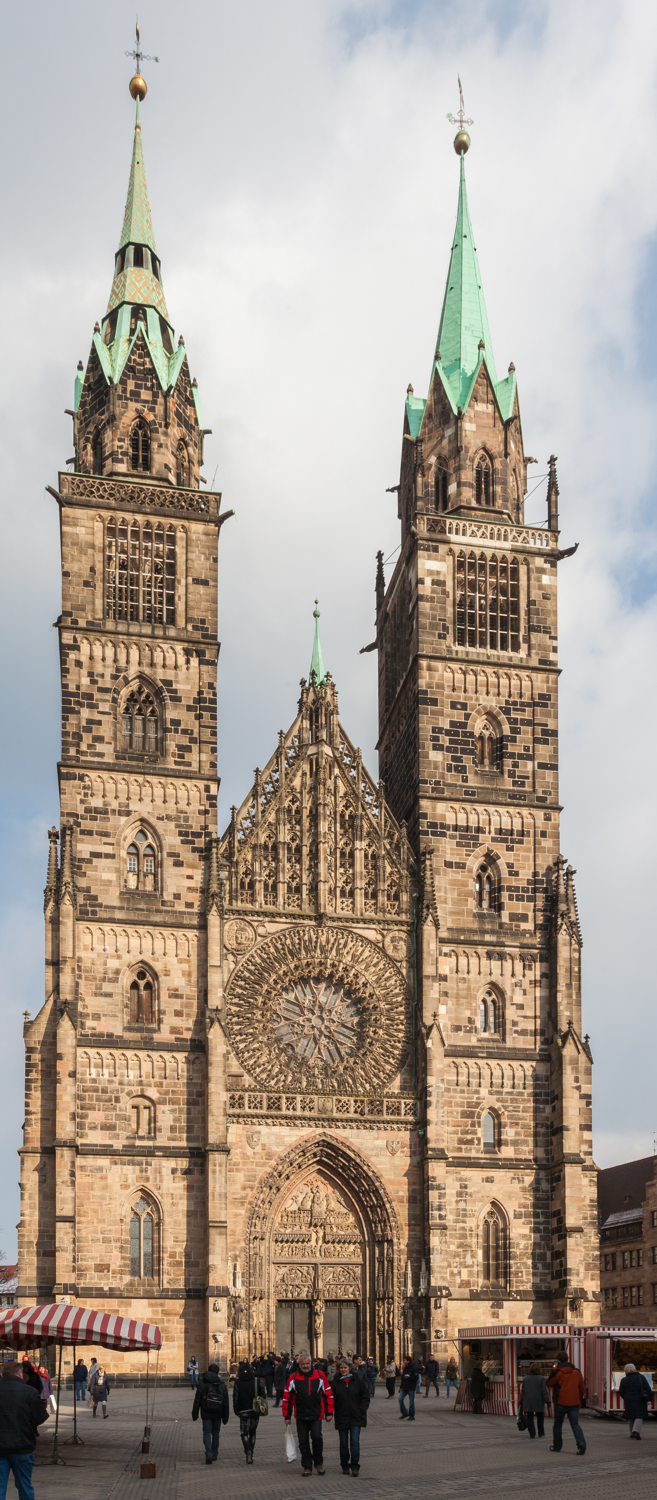 St. Lorenz church, Nuremberg, Germany